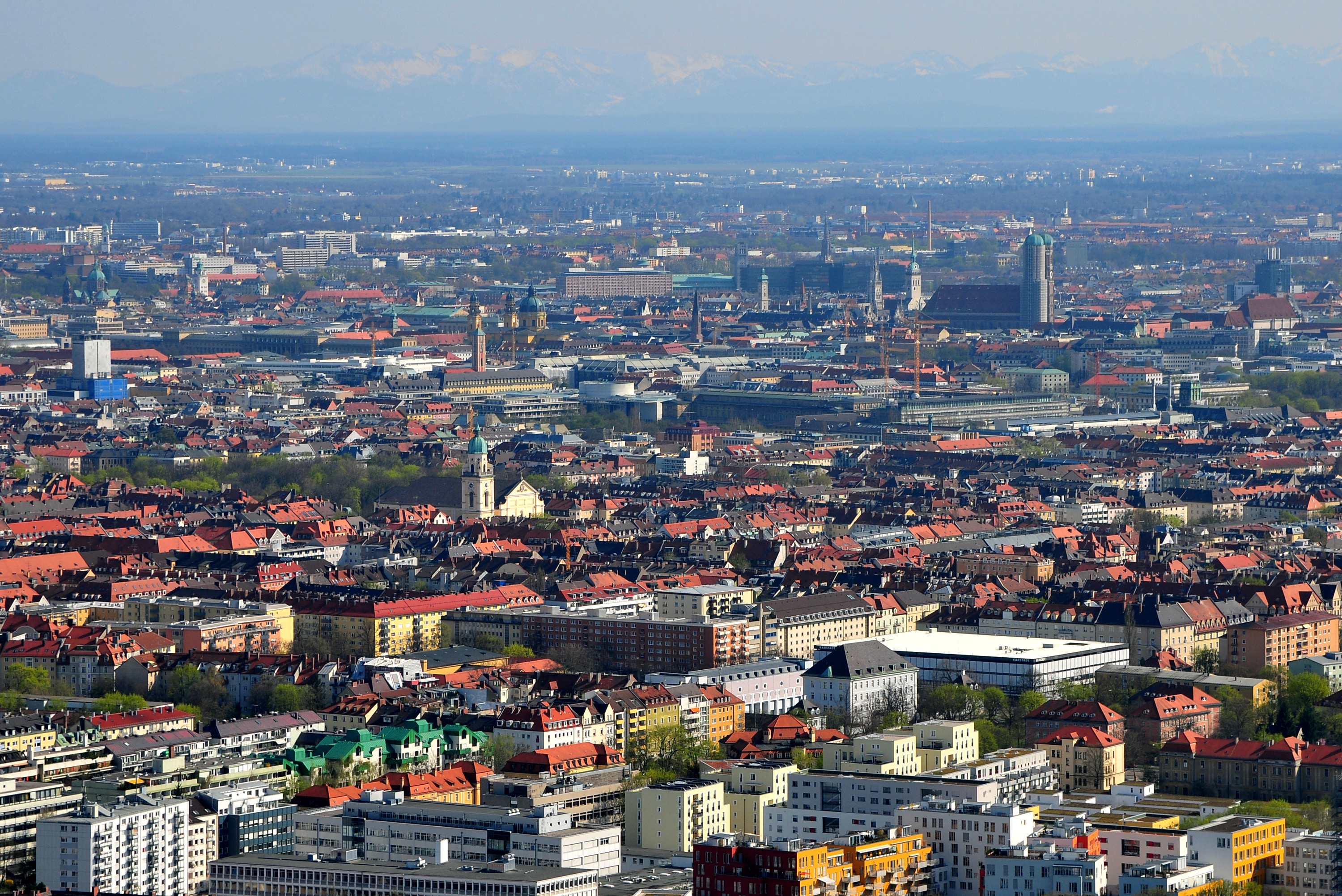 Munich